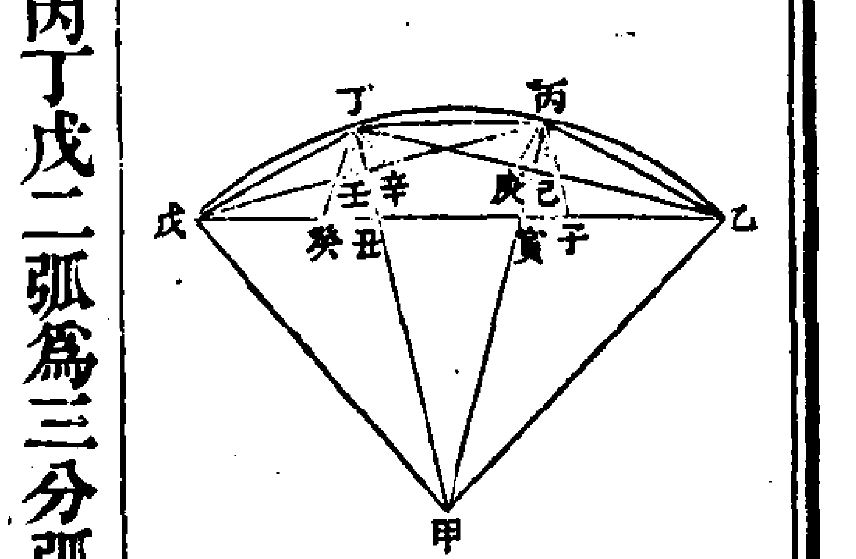 Figure 2 from Ming Antu's monograph Geyuan Milv Jiefa